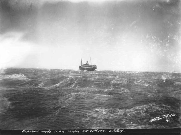 Princess Sophia aground on Vanderbilt reef, Friday, October 25, 1918, at 11:00 a.m. This ship would sink about 7 hours later with no survivors of the 343 people on board.